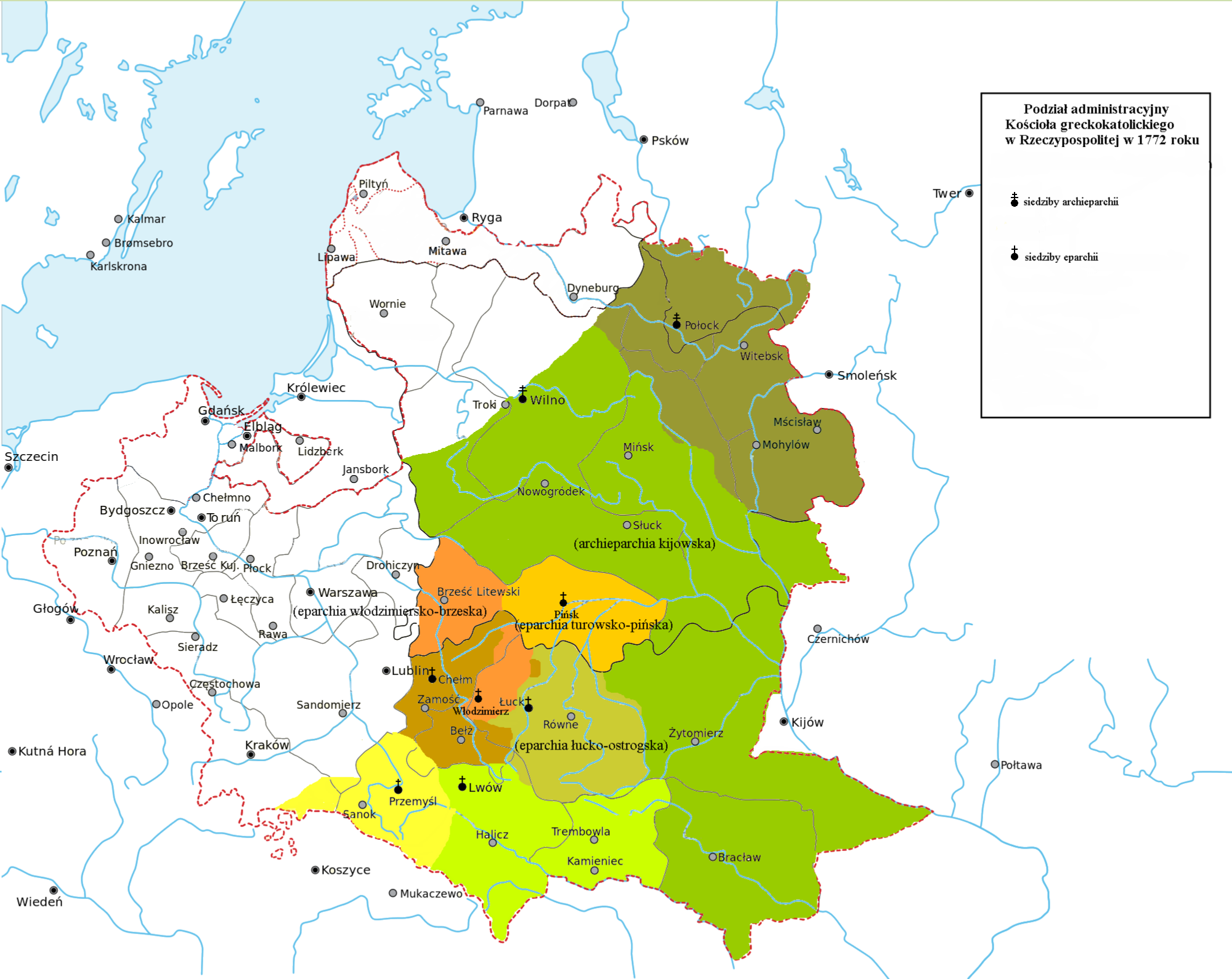 Administrative divisions of the Greek Catholic Church in Polish-Lithuanian Commonwealth in 1772